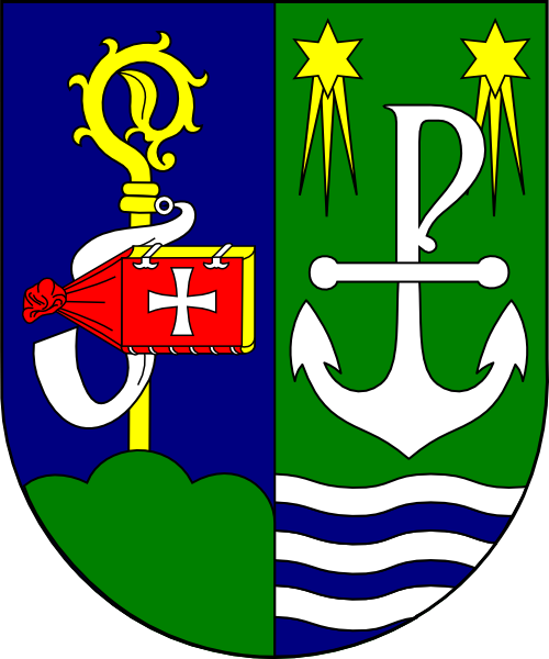 Coat of arms (shield only) of Hermann Peichl, abbot of Schottenstift (Scottish Abbey), Vienna (1930 - 1966). Based on "Die Wappen der wiener Schottenäbte", p. 31.